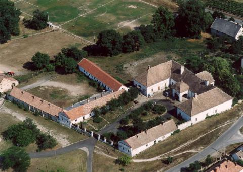 Mansion? in Veszprém County, Csabrendek, Hungary, aerial photography